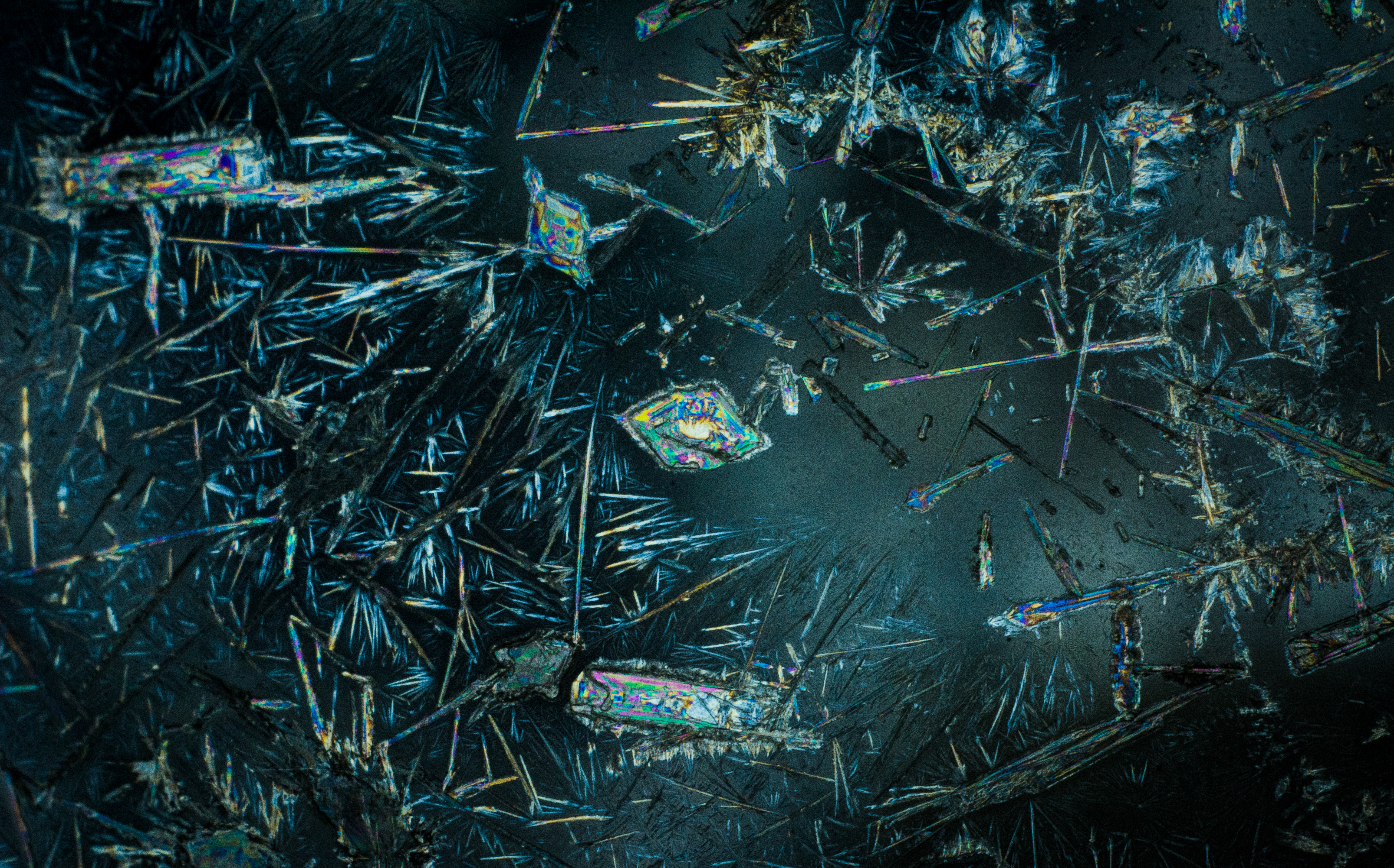 Crystals of sodium carbonate as seen through polariscope